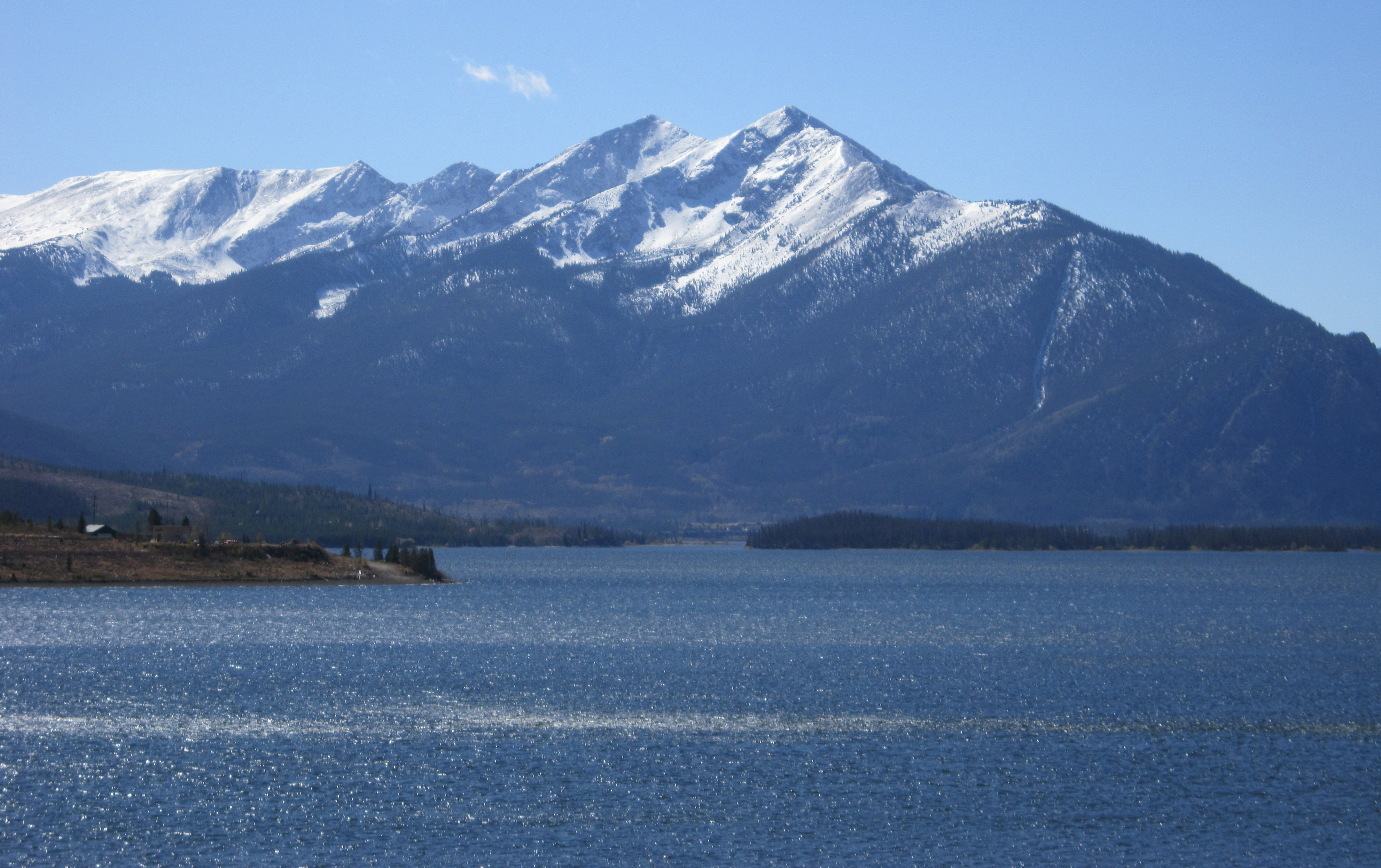 Dillon Lake